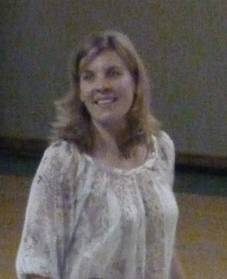 Isabelle Fijalkowski, French basketball player, at the U16 boys international tournament in Riom, Puy-de-Dôme, France.